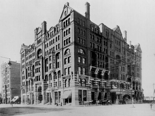 The West Hotel, Hennepin Avenue at North 5th Street, Minneapolis, Minnesota, USA, circa 1896. Used by written permission of the Minneapolis public library. The file was downloaded from The Minneapolis public library has agreed to use of these images, please give credit to the Minneapolis Public Library, Minneapolis Collection For further information you can contact them at: Believed public domain because of age